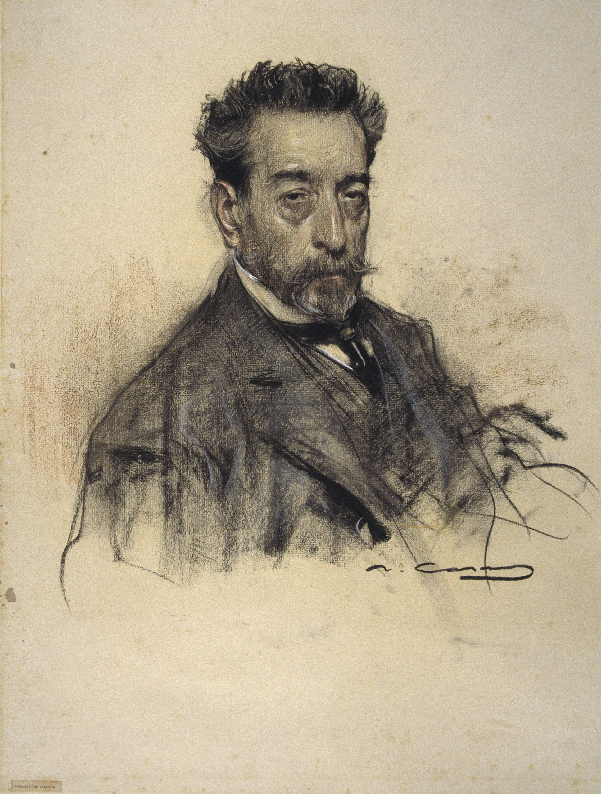 Portrait by Ramon Casas conserved at MNAC in Barcelona.